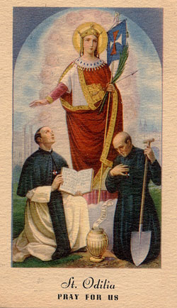 Picture of Saint Odilia of Cologne.